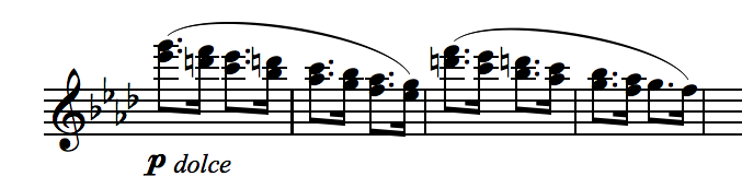 The second theme as stated by the flutes in the third movement of Brahms's Symphony No. 1 This was originally published in 1877 Sibelius 5 was used to create this image.